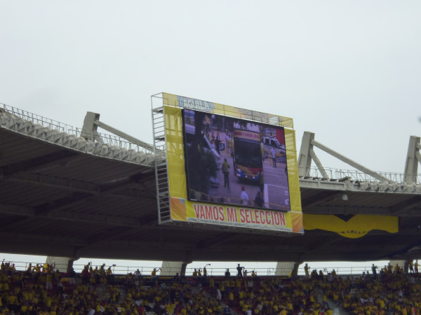 Electronic scoreboard Metropolitano Stadium